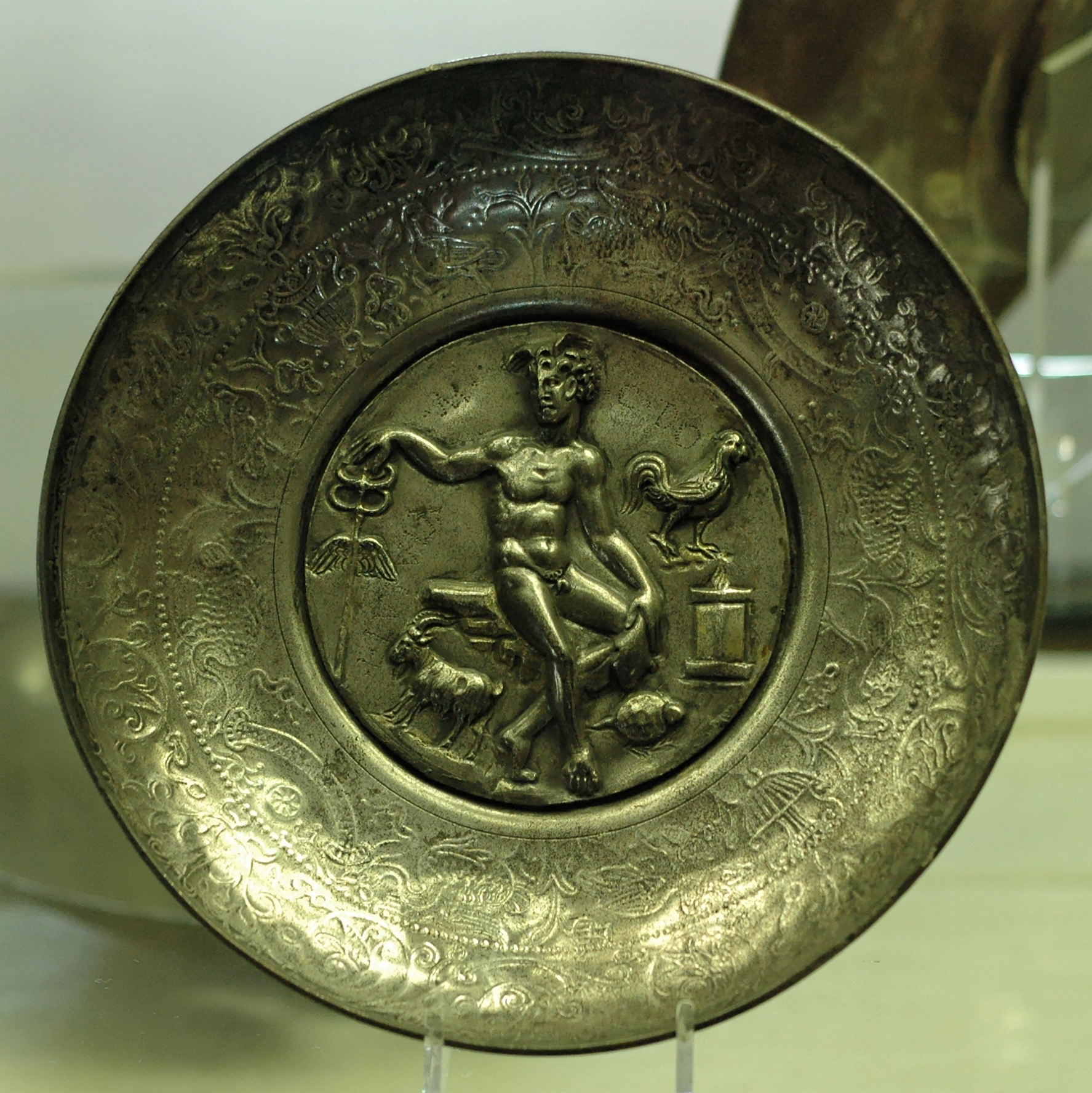 Mercury holding a caduceus and a purse, with a cockerel, a tortoise and a goat. Silver cup dedicated to Mercury by Lucia Lupula, end of the 2nd century CE.